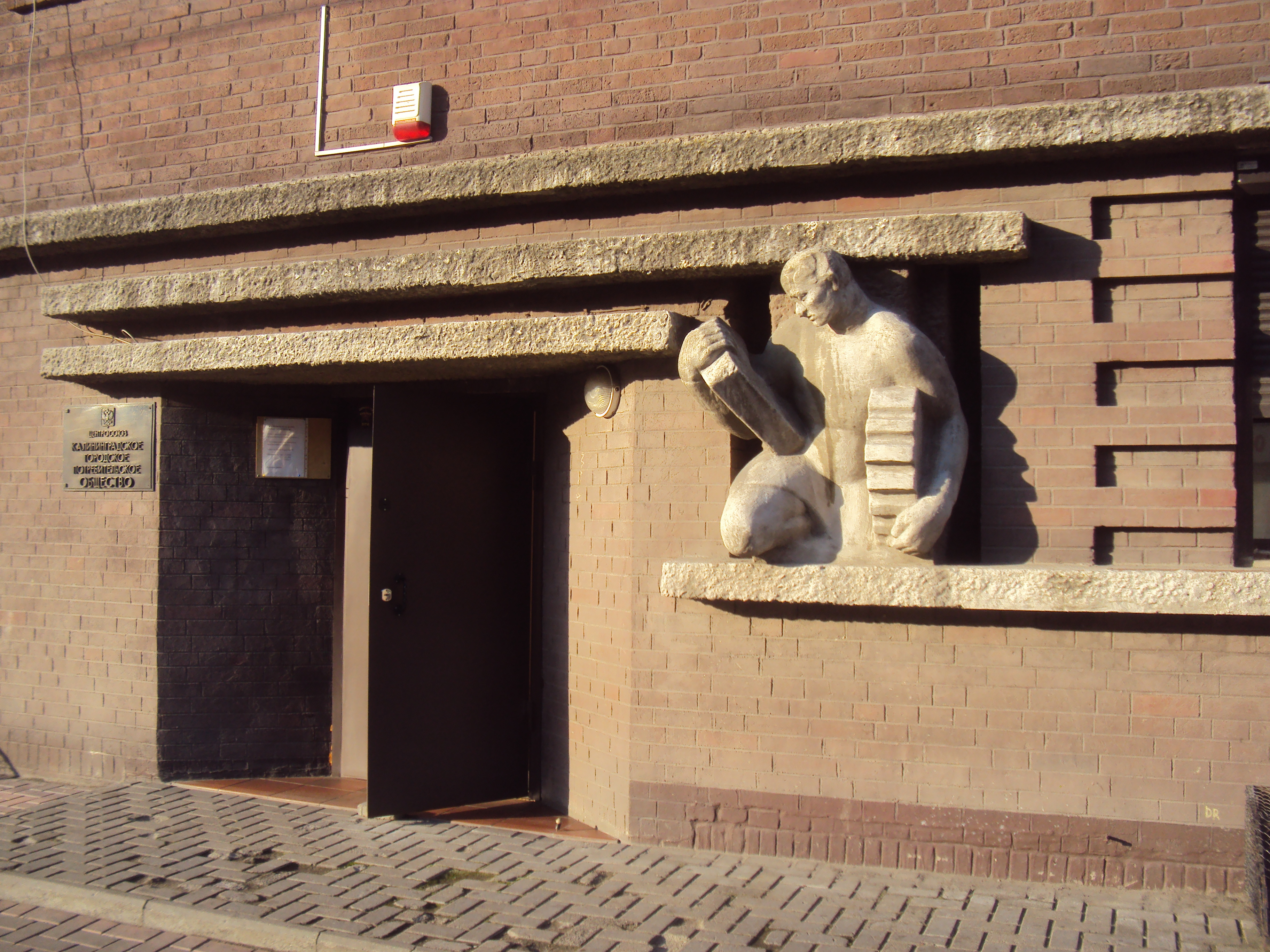 House of Technology with a relief worker